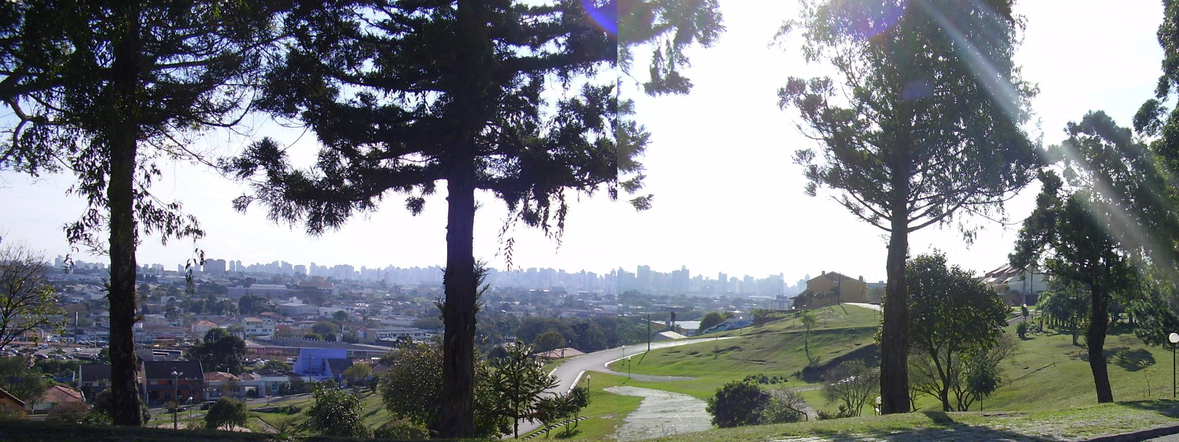 Skyline view of Curitiba, from the top of the Abilio de Abreu Plaza in Curitiba, PR - Brasil.